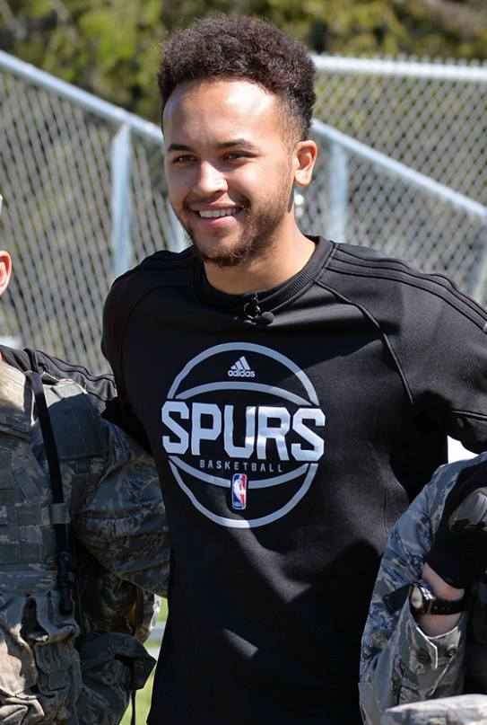 Kyle Anderson of the San Antonio Spurs poses with basic officer leadership course cadre at Joint Base San Antonio-Camp Bullis March 14.